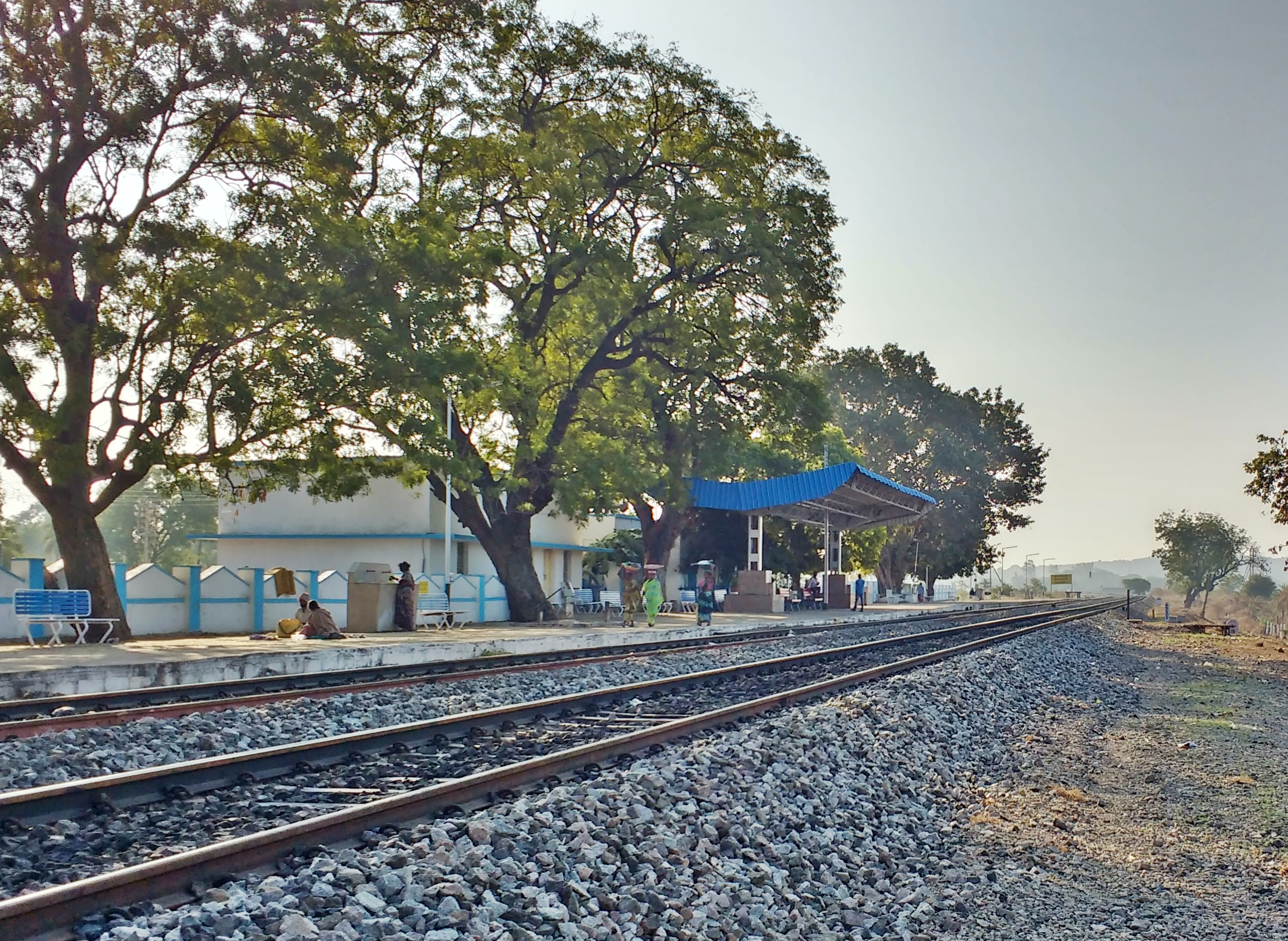 Jankampet Junction is a railway station serving the city of Nizamabad.